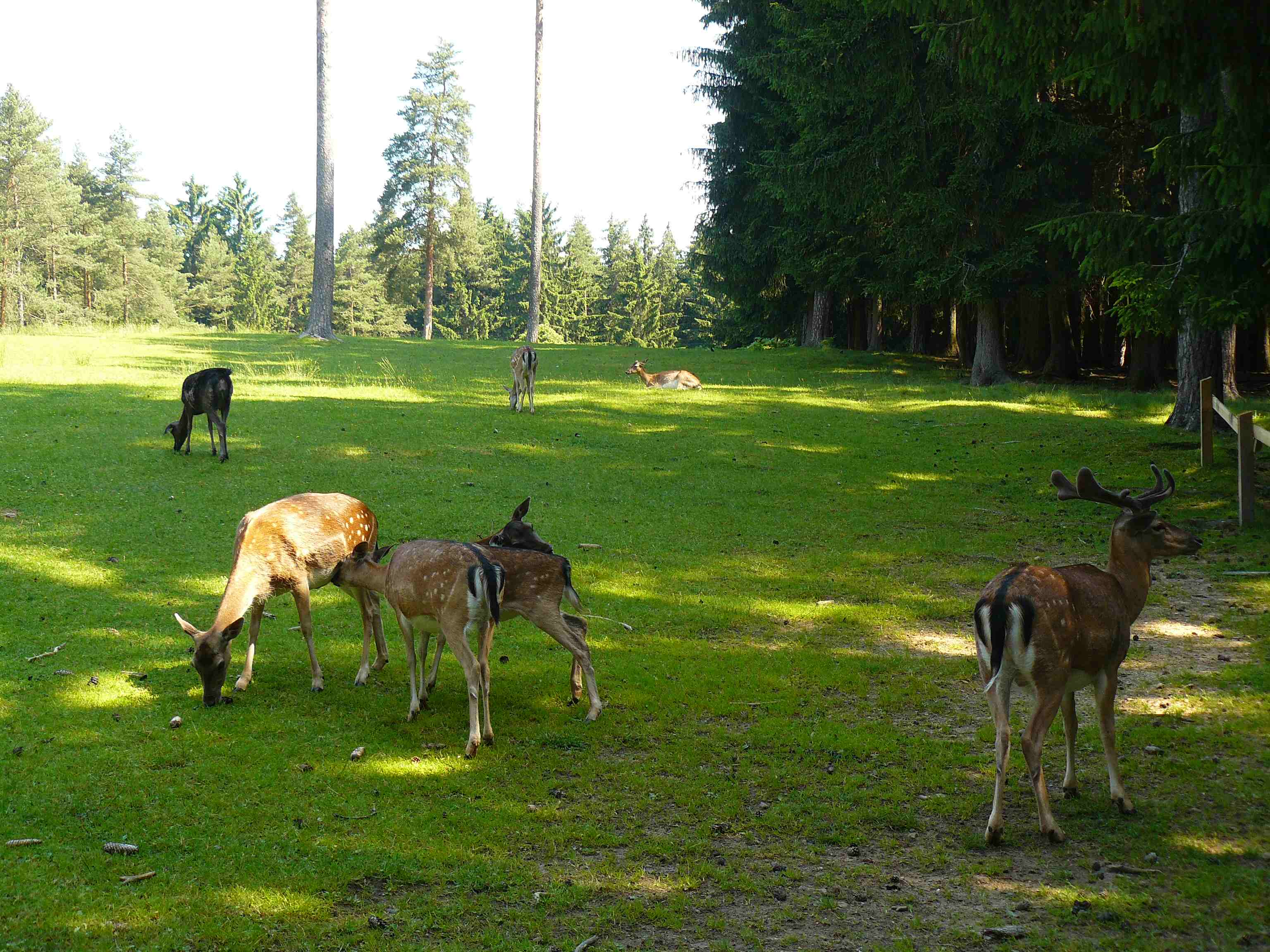 Fallow Deer (Dama dama) in the Wildgehege Veldensteiner Forst near Pegnitz, Franconia, Germany